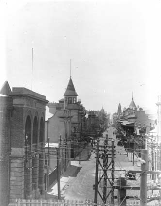 High Street, Fremantle, looking east after dismantling.